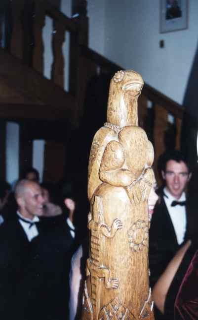 Zimbabwe bird bannister, Brian Gratwicke